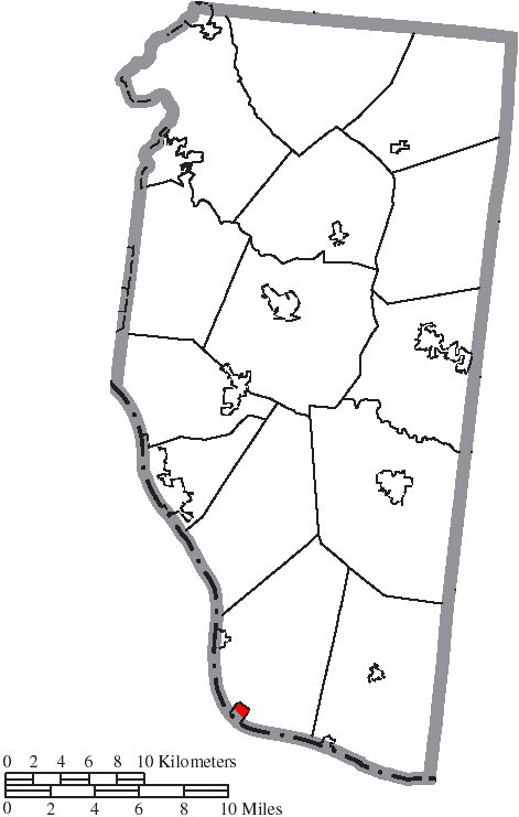 Map of the municipal and township boundaries of Clermont County, Ohio, United States, as of the 2000 census, with the location of the village of Neville highlighted. Township borders are shown only in unincorporated areas in order to differentiate incorporated and unincorporated areas more clearly.